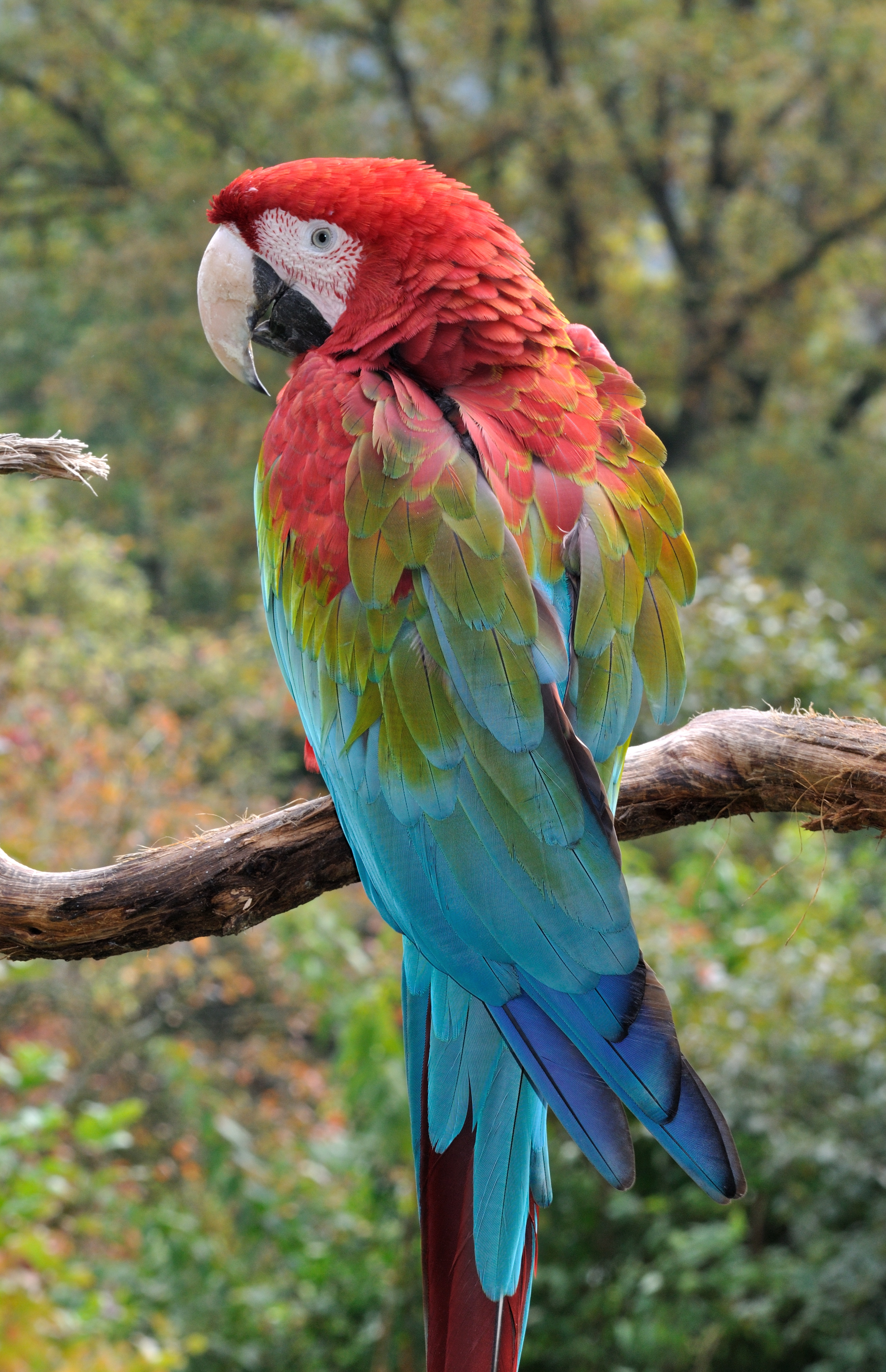 Red-and-green Macaw (Ara chloropterus) in the Herborn Bird Park, Germany.